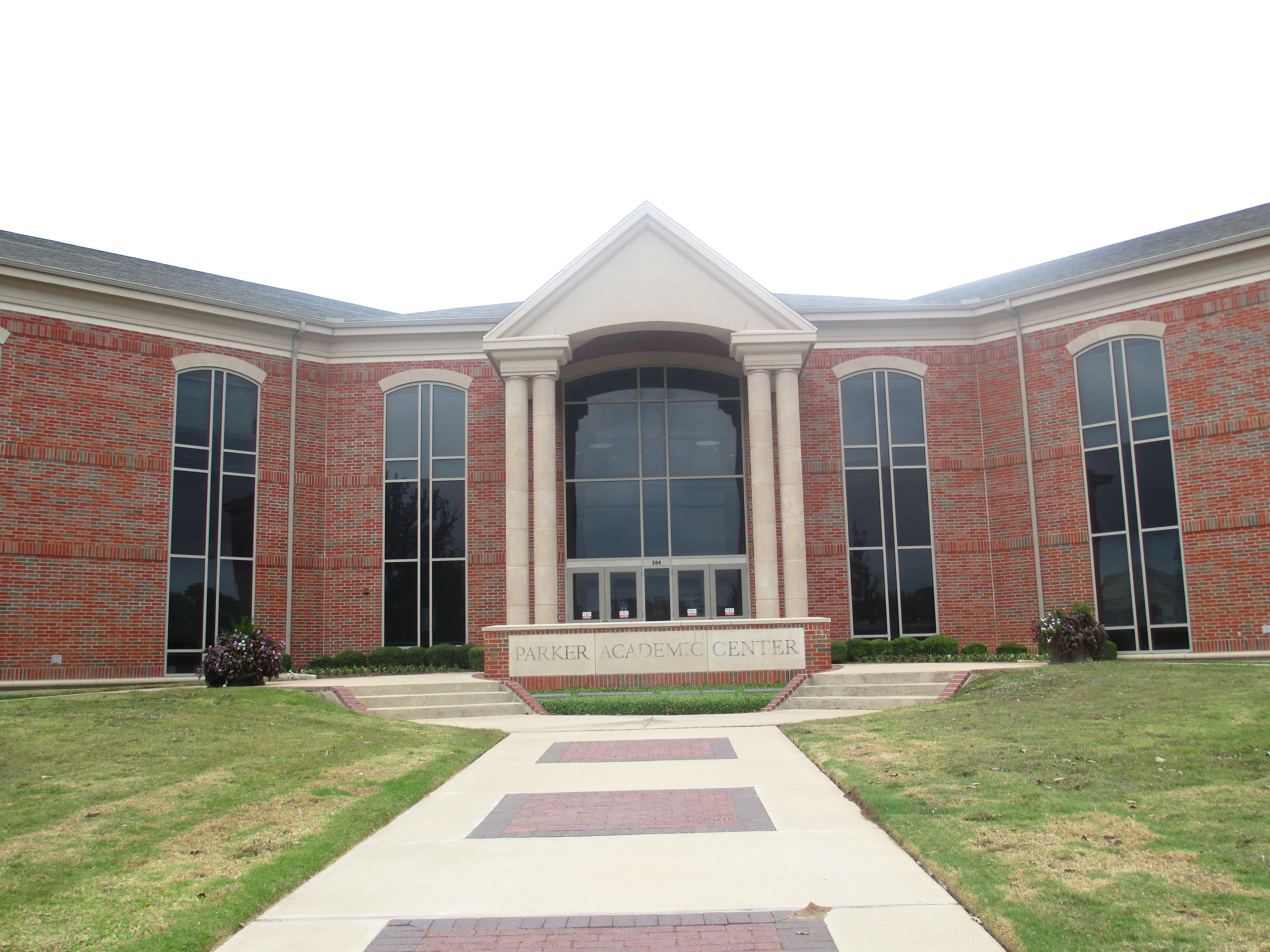 I took photo of Parker Academic Center at the UMHB at Belton, TX.